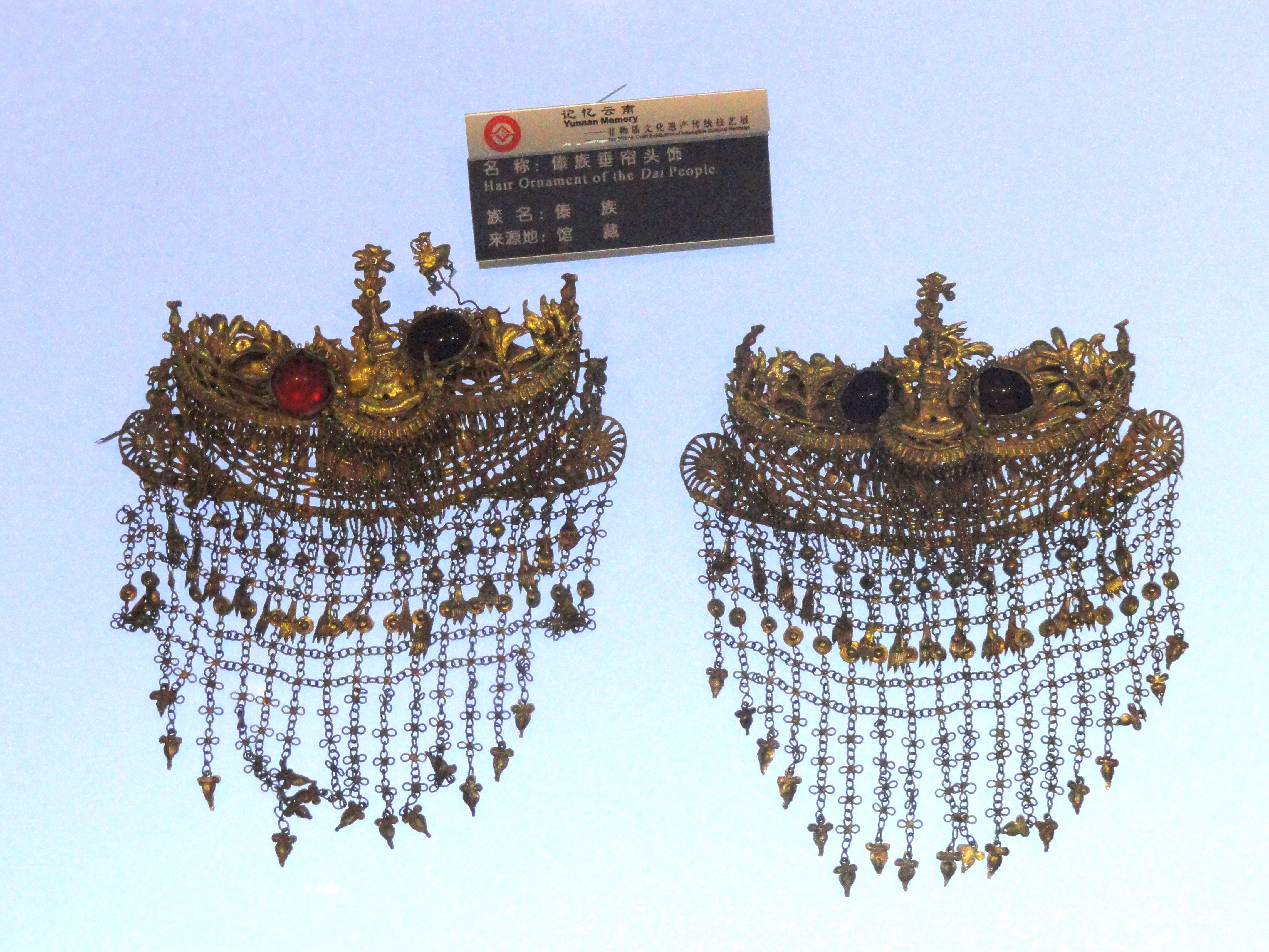 Dai hair ornaments. Metalwork in the Yunnan Provincial Museum, Kunming, Yunnan, China.